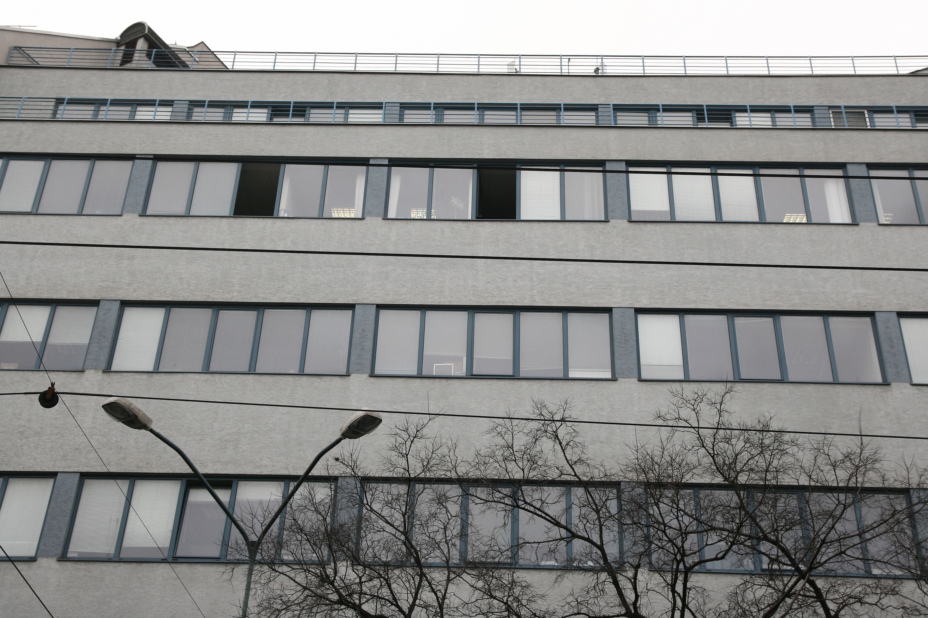 Branch of united UP plants building, Bratislava, Slovakia. Functionalist building from 1929 by architect Jan Víšek.